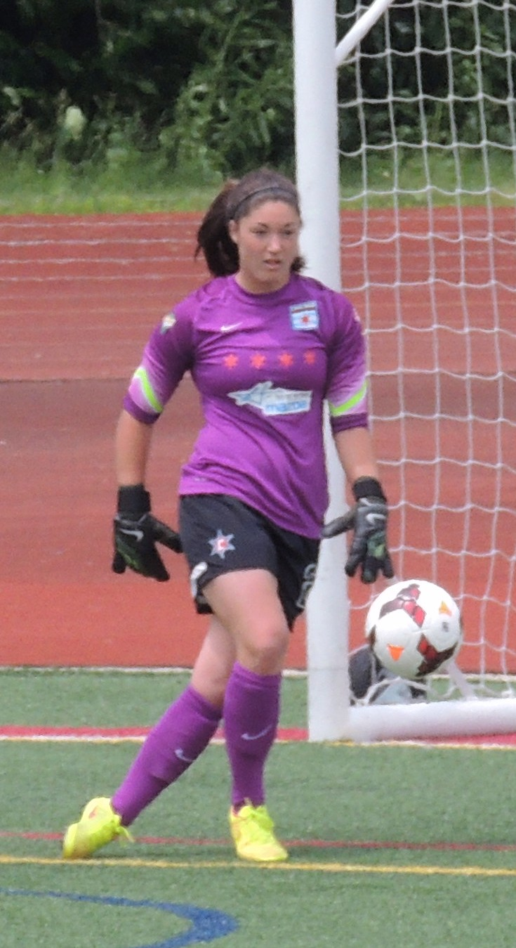 June 14, 2014 Taylor Vancil of Chicago Red Stars playing against Sky Blue FC